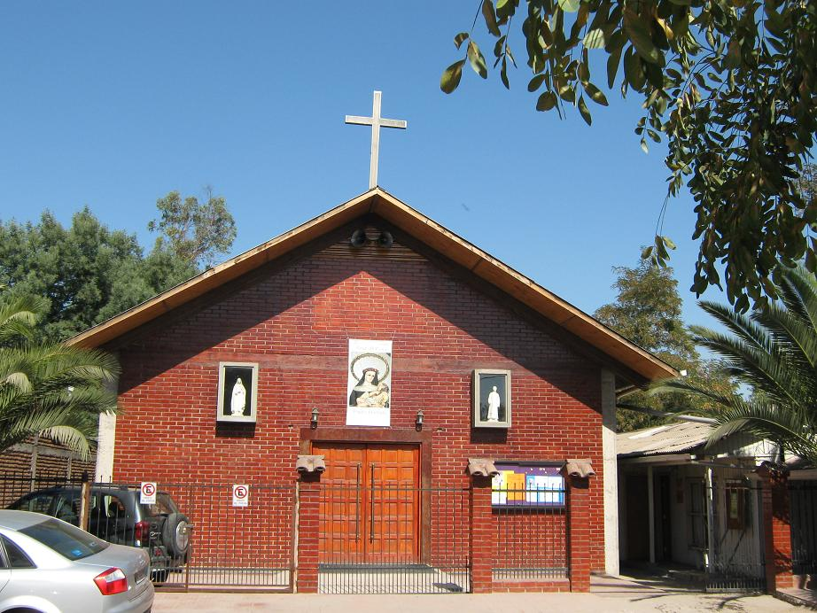 St Rosa Padre Hurtado